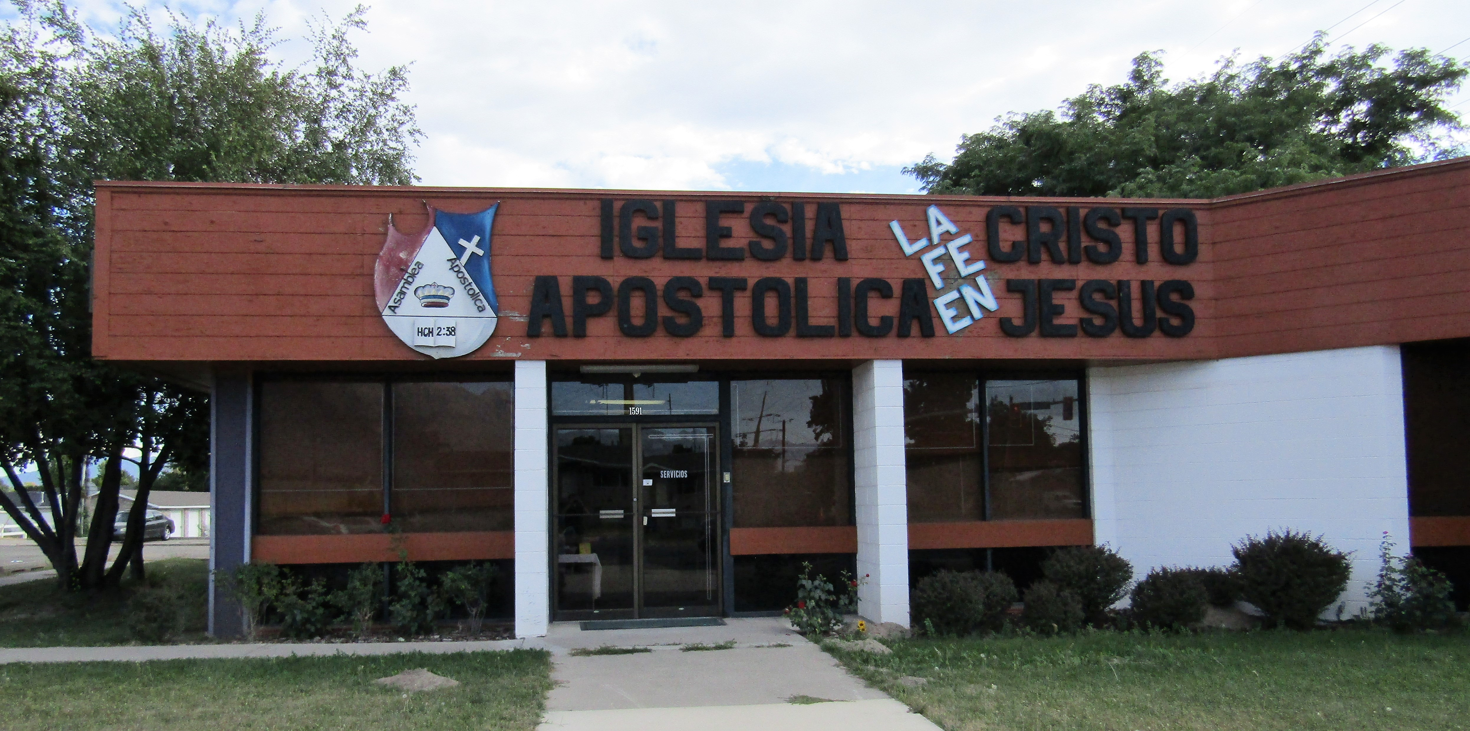 Pentecostal church in Provo, Utah.